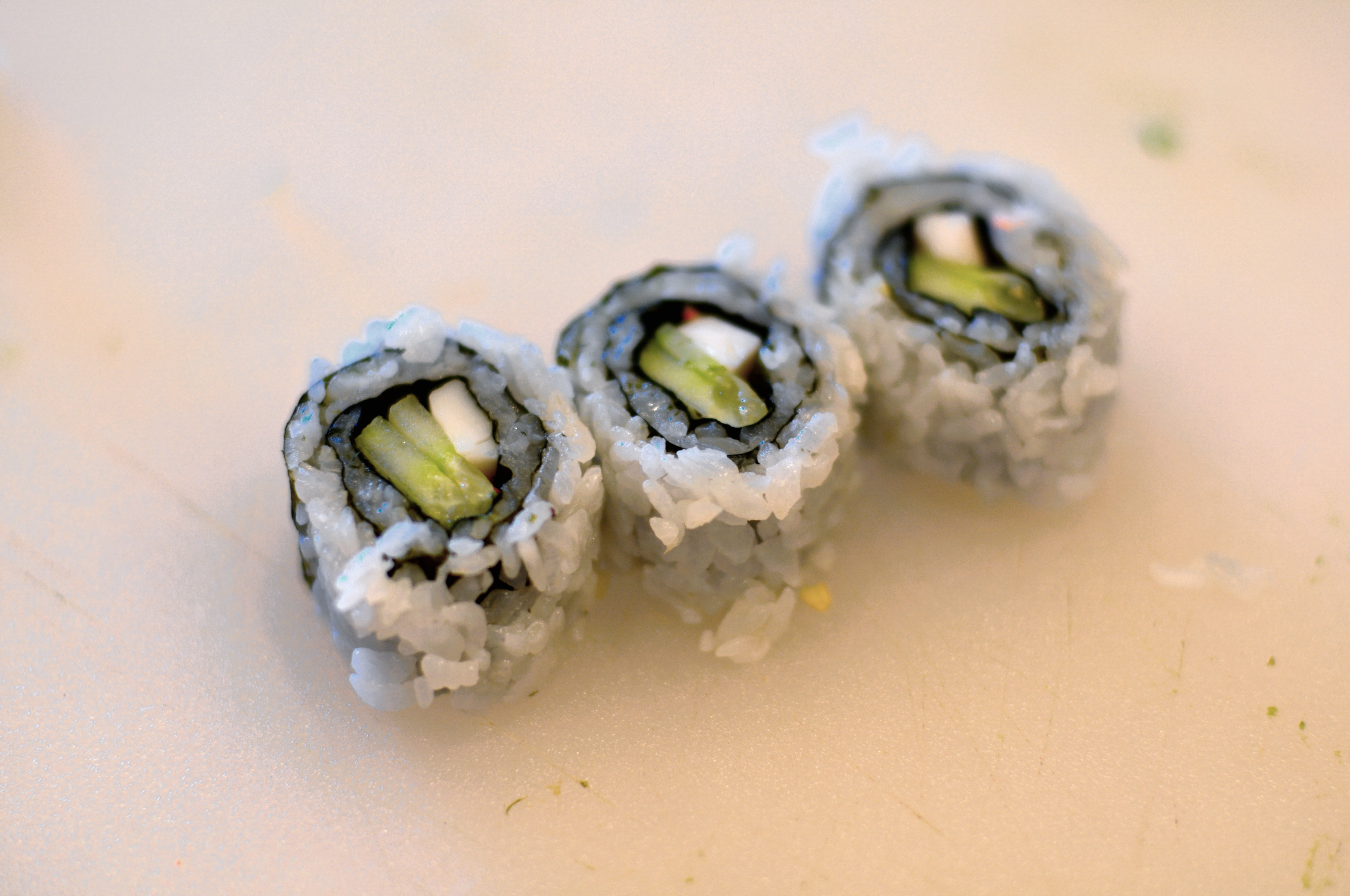 My first attempt at making sushi was pretty successful.